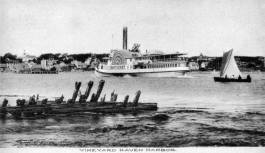 Postcard image of paddlewheel steamer Nantucket in Vineyard Haven harbor approaching Union Wharf. Undivided back postcard (pre-1907).